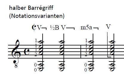 Barré notation possibilities (classical notation für guitar, half barré)